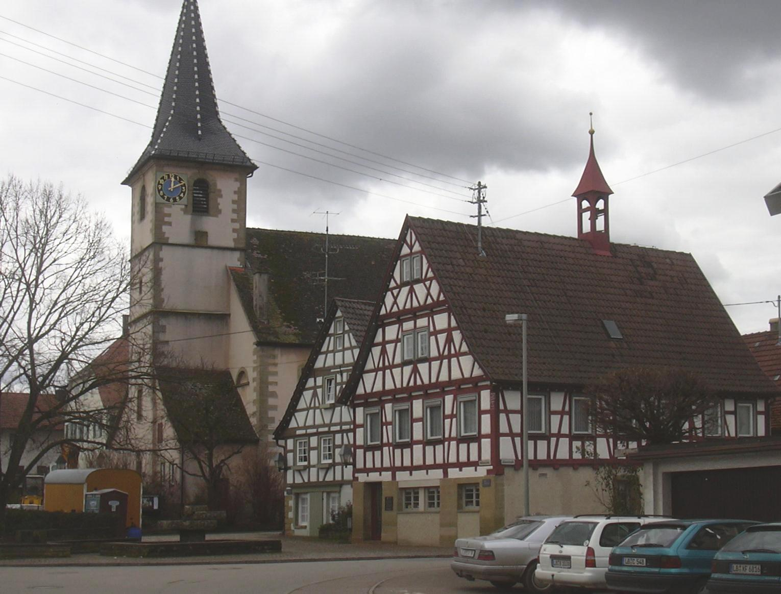 Town hall and church in Rielingshausen, Germany